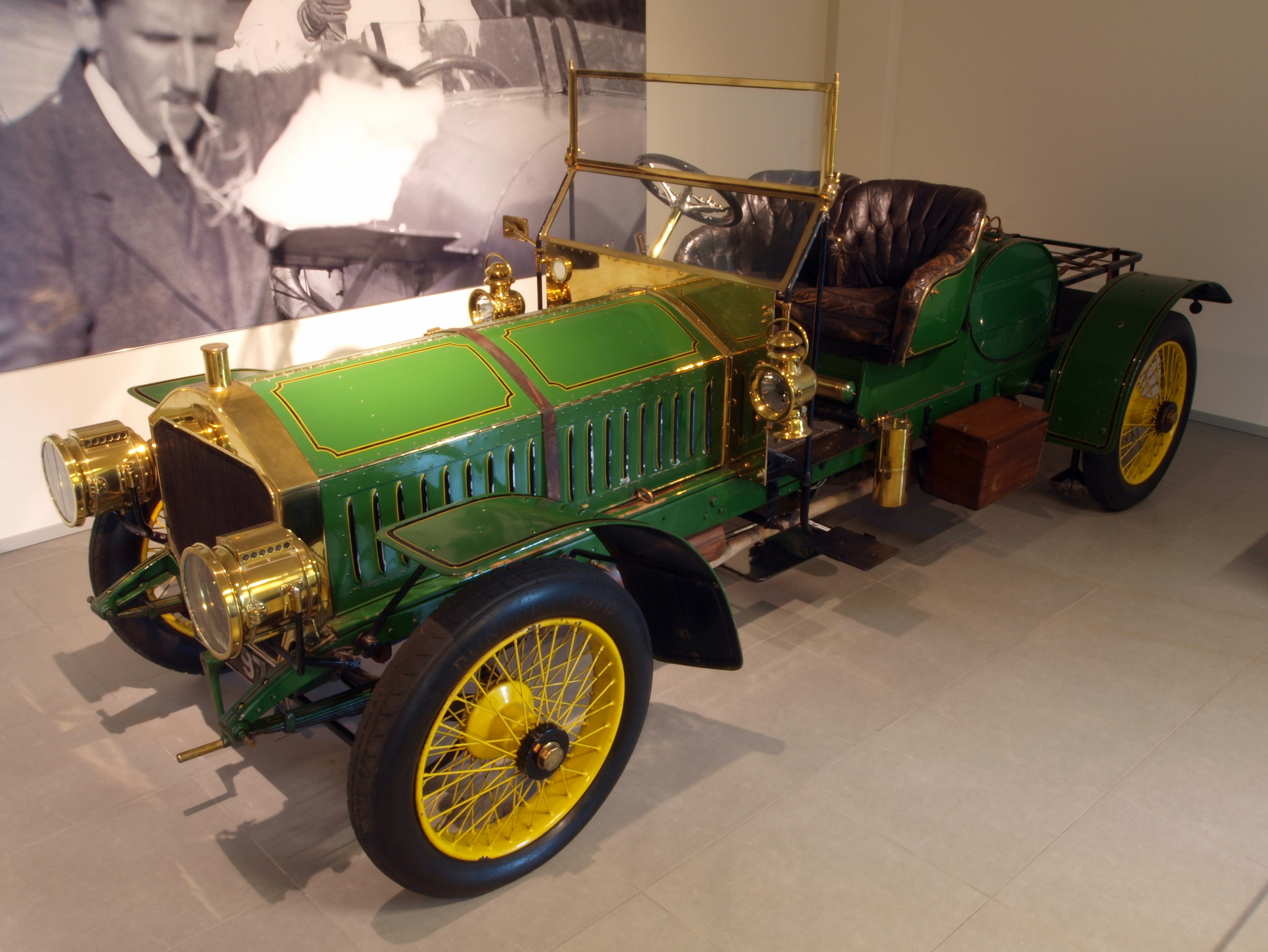 Photographed at the Louwman museum, The Netherlands.